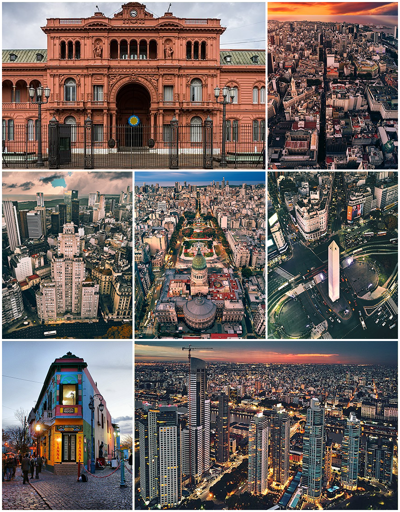 Photo montage of Buenos Aires, Argentina.